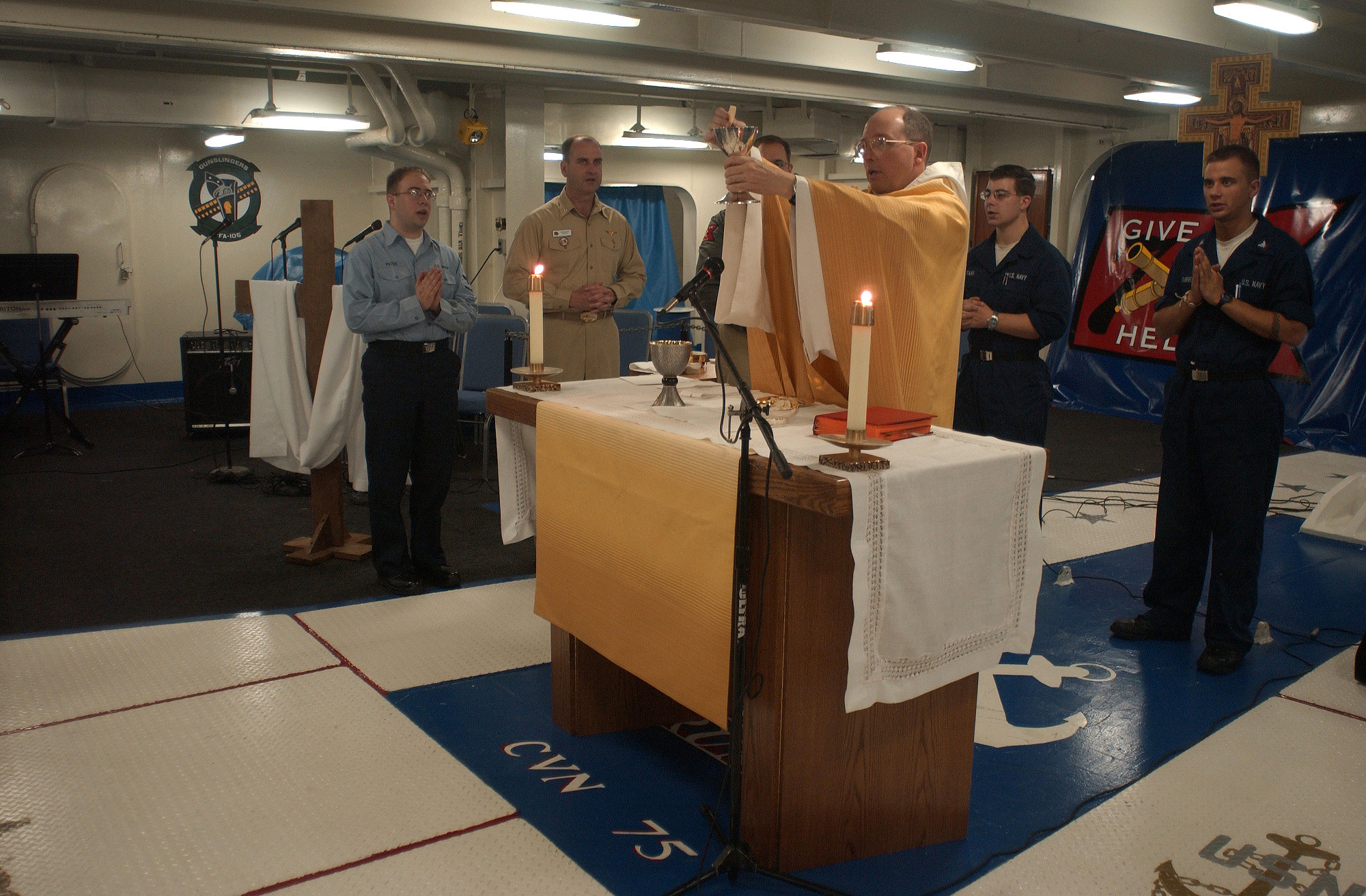 Atlantic Coast (Apr. 11, 2004) - Navy Chaplain Burnette prepares holy communion during a Catholic Easter Sunday Mass in the Forecastle aboard the nuclear powered aircraft carrier USS Harry S. Truman (CVN 75). Truman is currently undergoing a Tailored Ship's Training Availability (TSTA) exercise off the Atlantic coast. U.S. Navy photo by Photographer's Mate 2nd Class Andrea Decanini. (RELEASED)